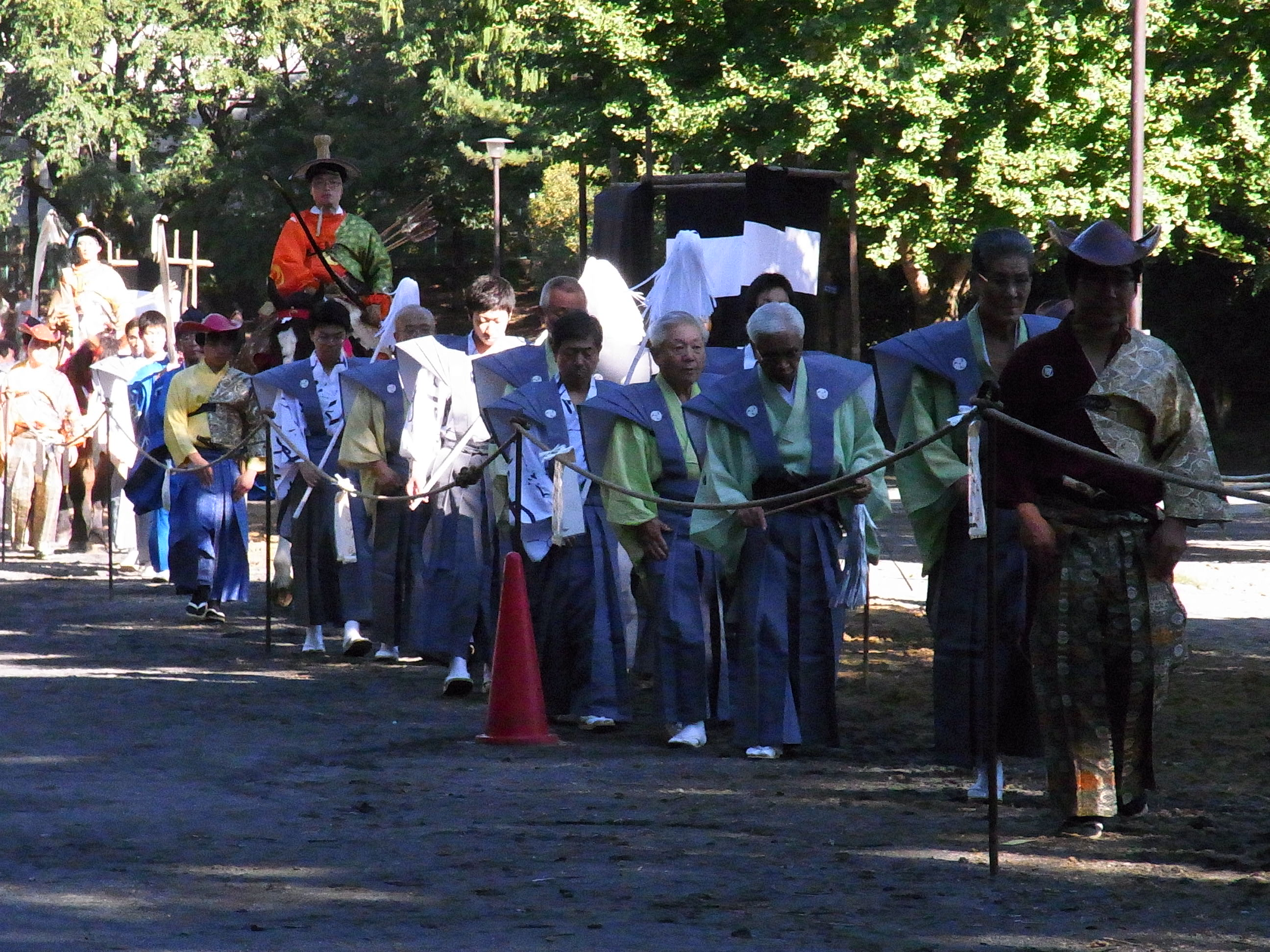 Yabusame at Takadanobaba in Shinjuku-ku, Tokyo